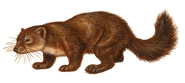 Sable (Martes zibellina). Painted by Tynt22.